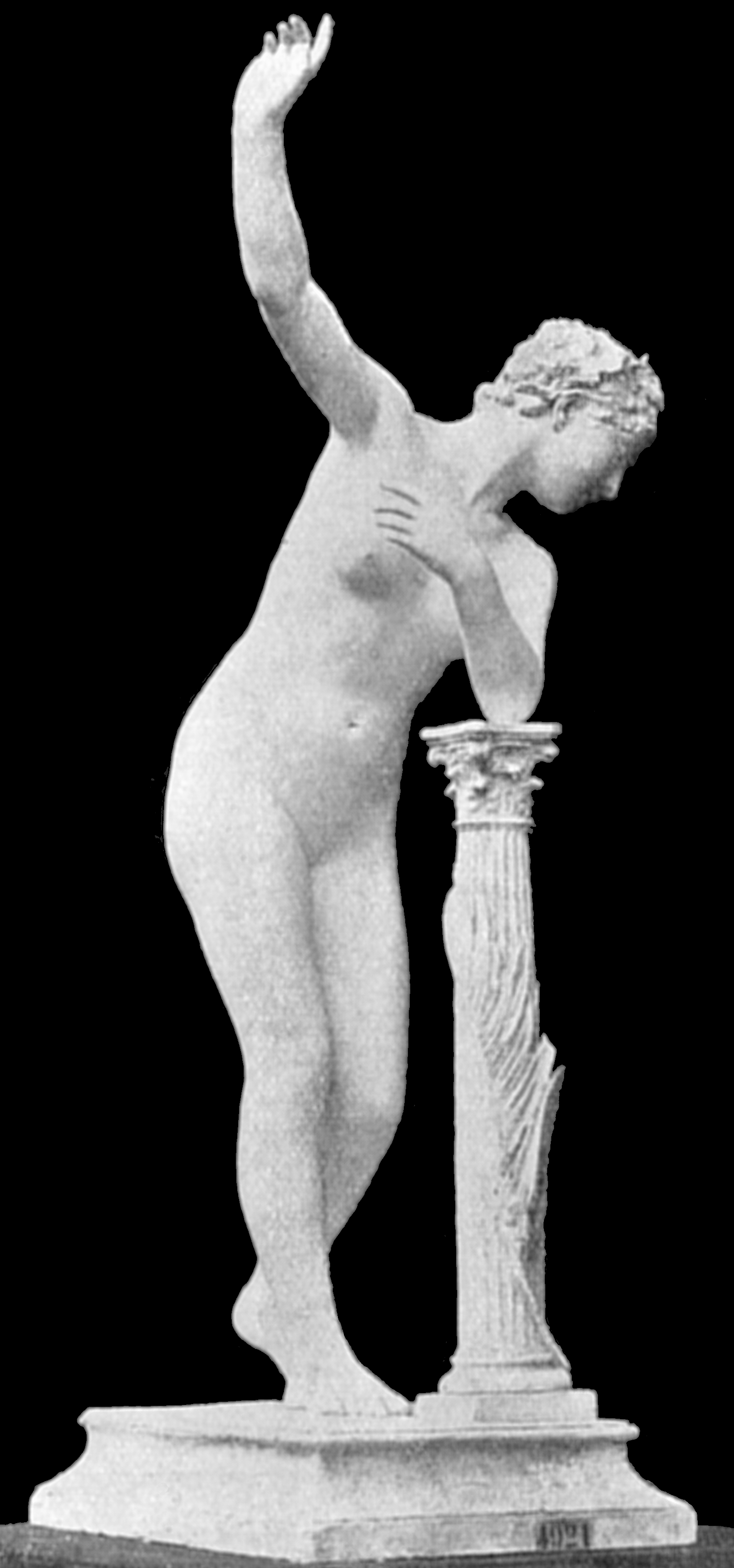 Scan of sepulchral figure "l'Immortalité" by Belgian sculptor Paul de Vigne (1843-1901). Image modified to replace dark mottled background with solid black.